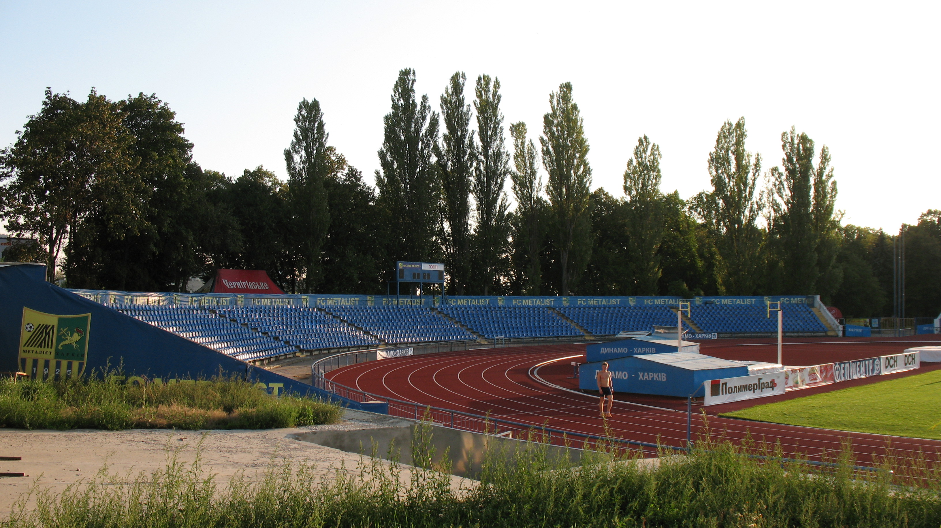 Dinamovskaya Street, 5. Dinamo Football Stadium in Kharkov.